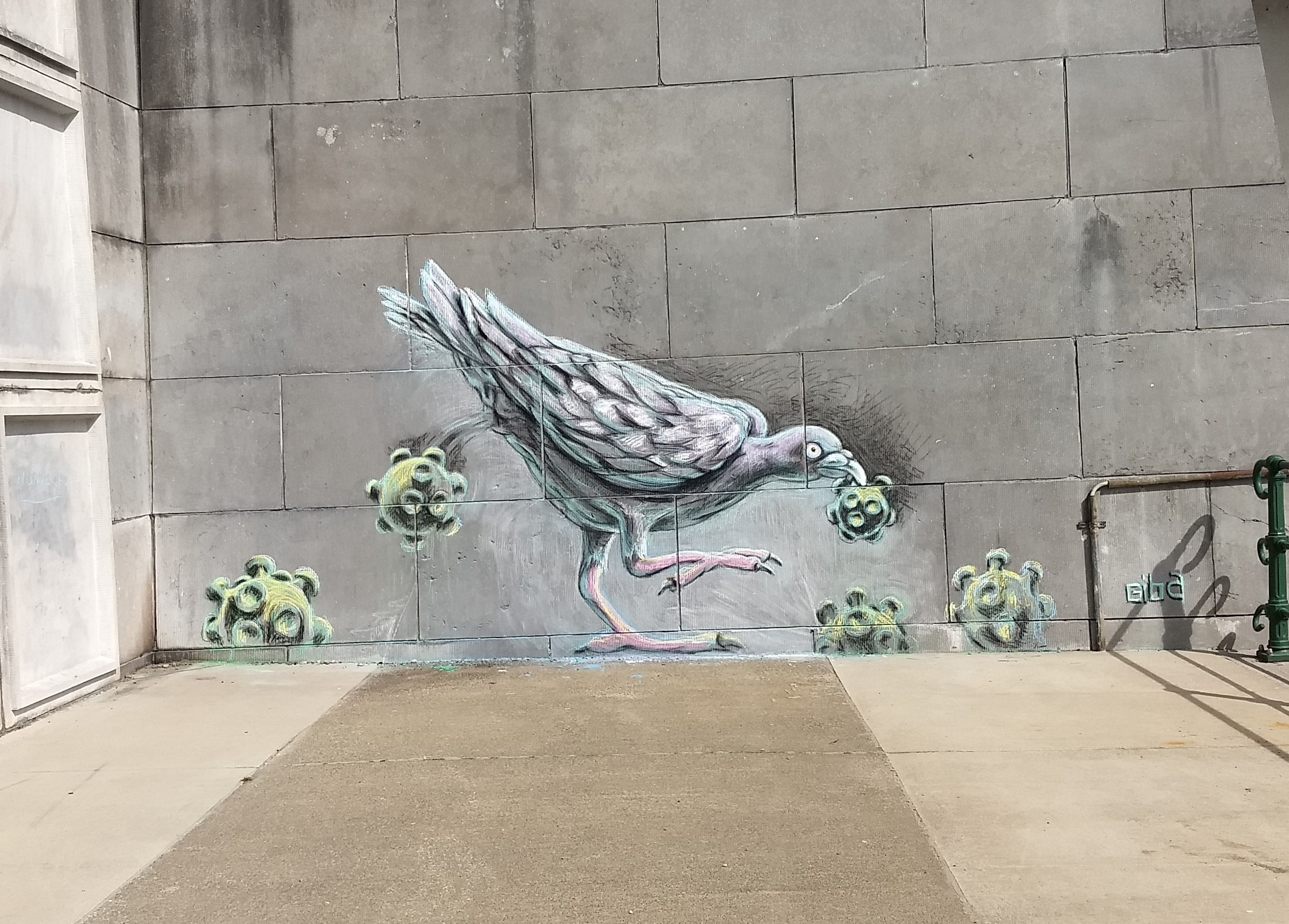 Corona Graffiti in Belgium